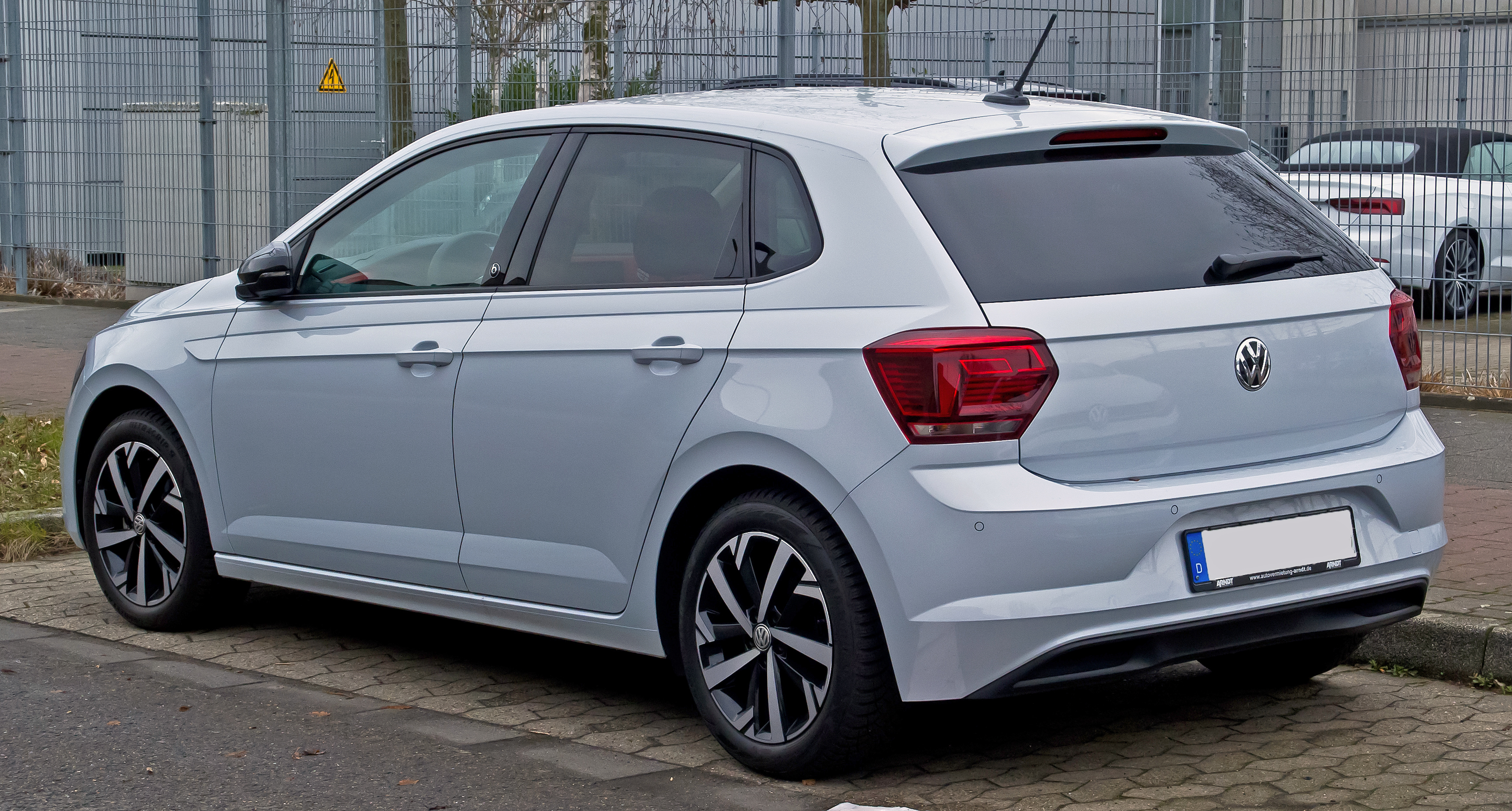 VW Polo beats (VI)